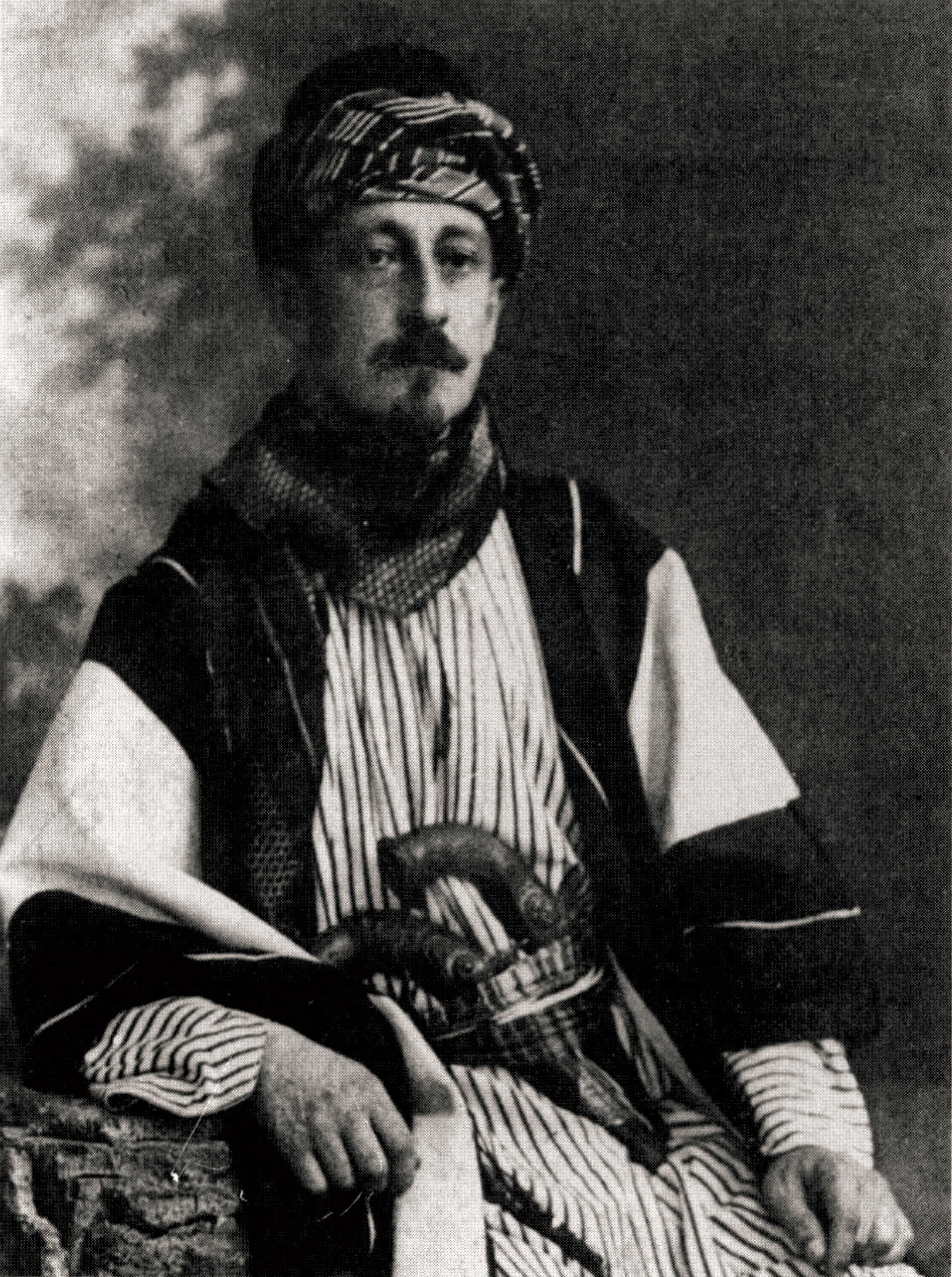 Photograph of Valter Juva during one of his visits to Jerusalem.